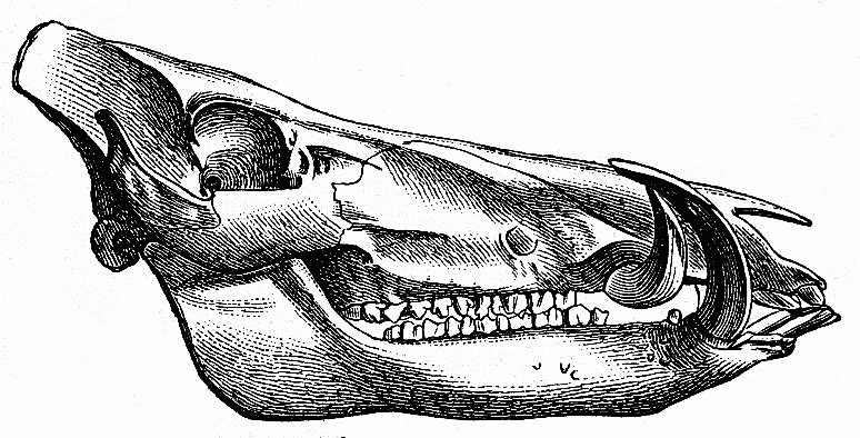 Skull of a wild boar.